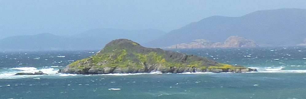 Isola Campionna (Sardinia, Italy); Isola Rossa in the background